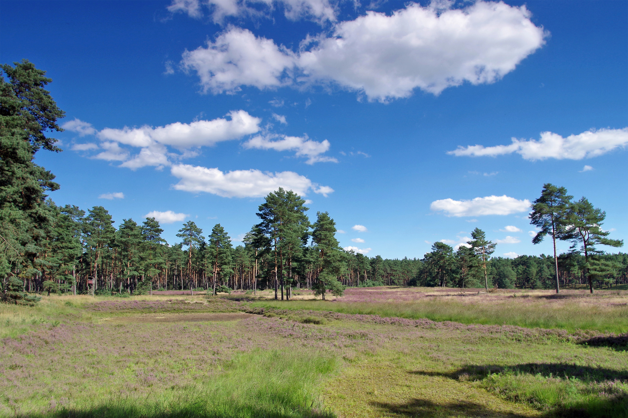 Heath and bog area within the pine forest "Gartower Forst" (or "Gartower Tannen") in northern Germany.